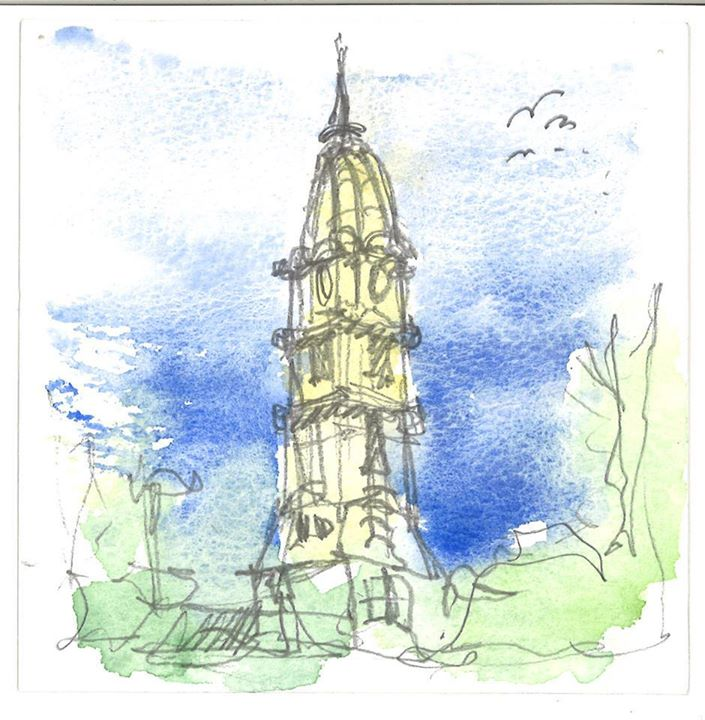 aia11